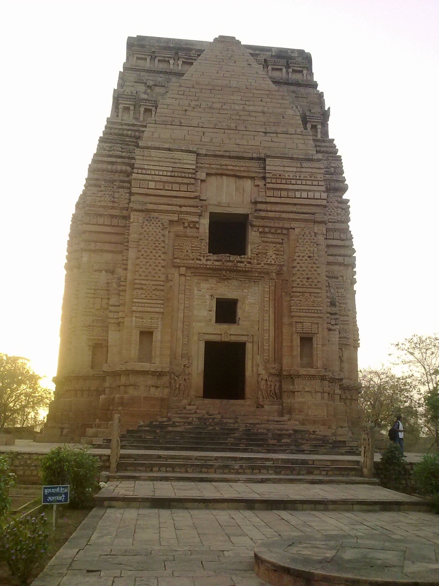 Gwalior, India